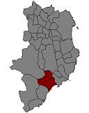 Location of Calonge in Baix Empordà